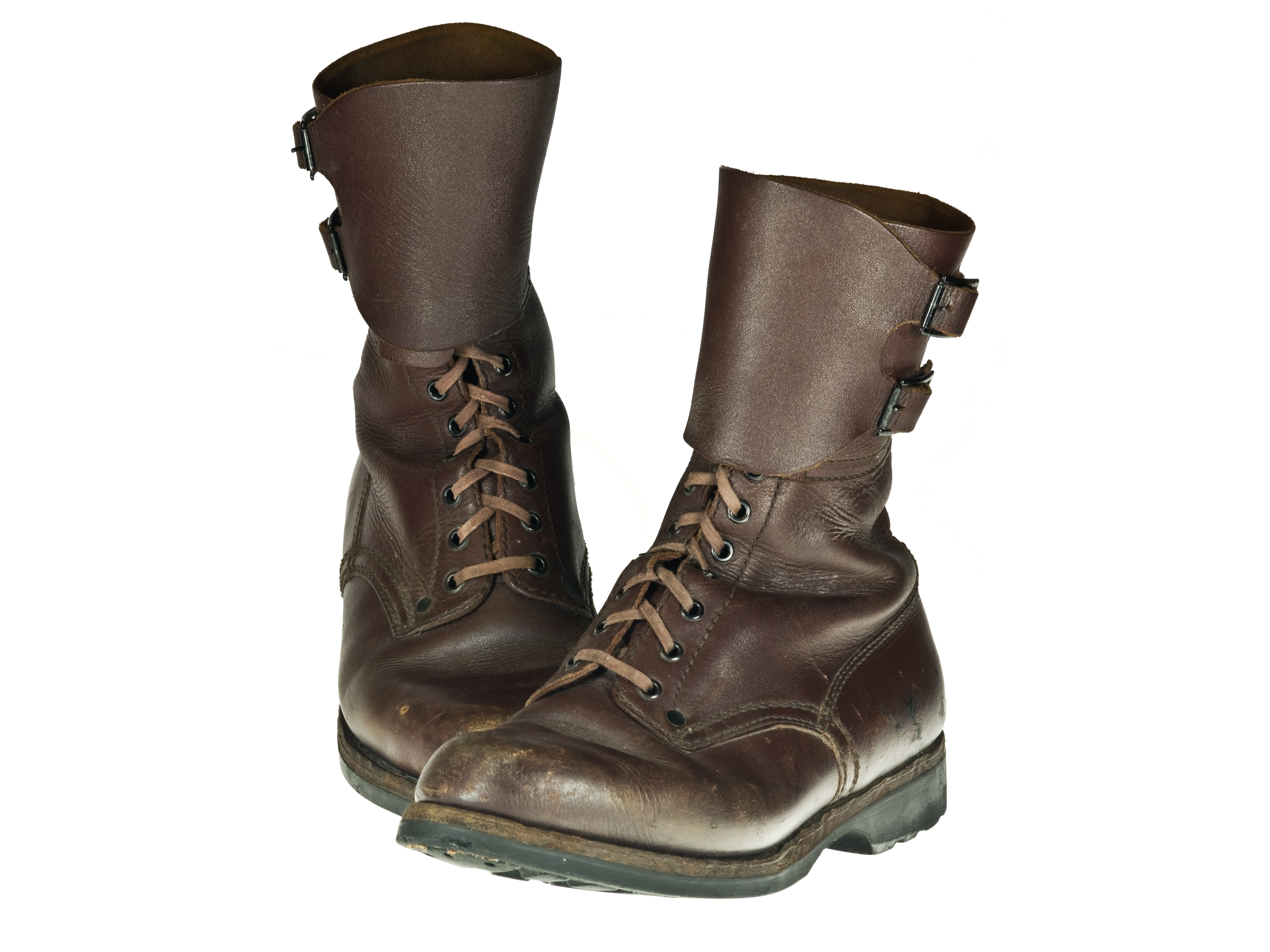 Combat boots used in Polish Army up to the 1990s.